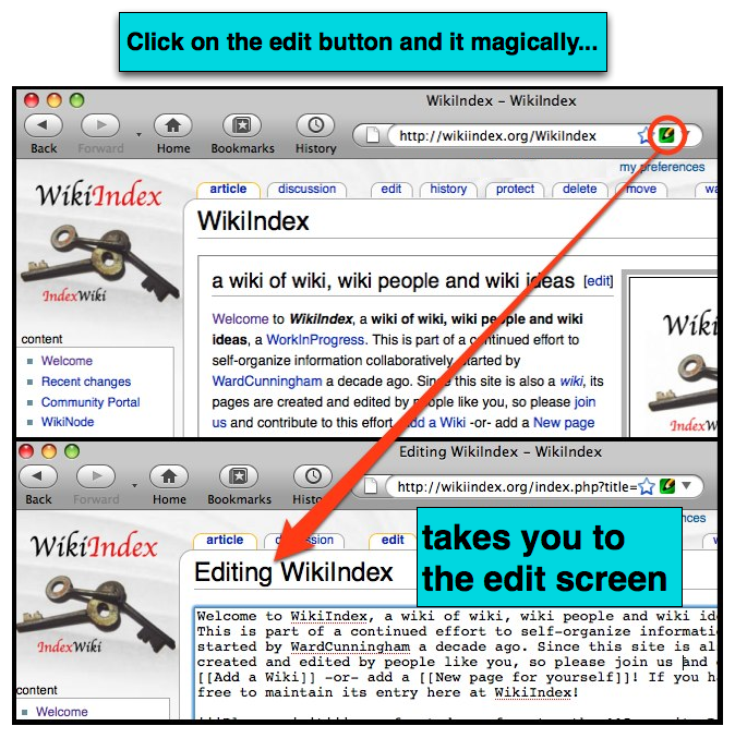 A screenshot from showing the Universal Edit Button (currently available as a Firefox extension that is active on all Wikimedia projects) in action. Also see Image:UniversalEditButton.png